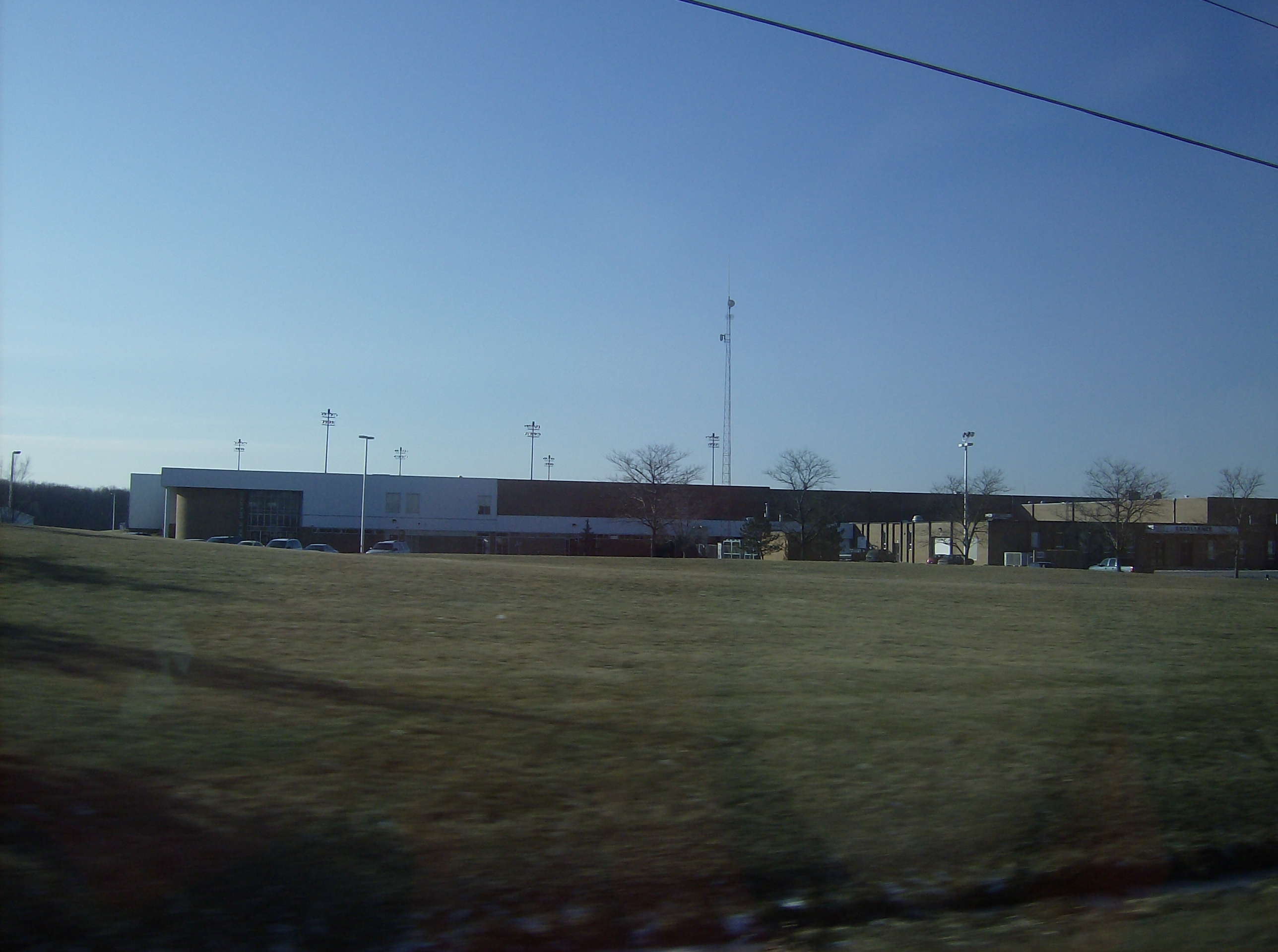 Norwell High School in northwestern Lancaster Township, Wells County, Indiana, United States. Picture taken southward from U.S. Route 224.